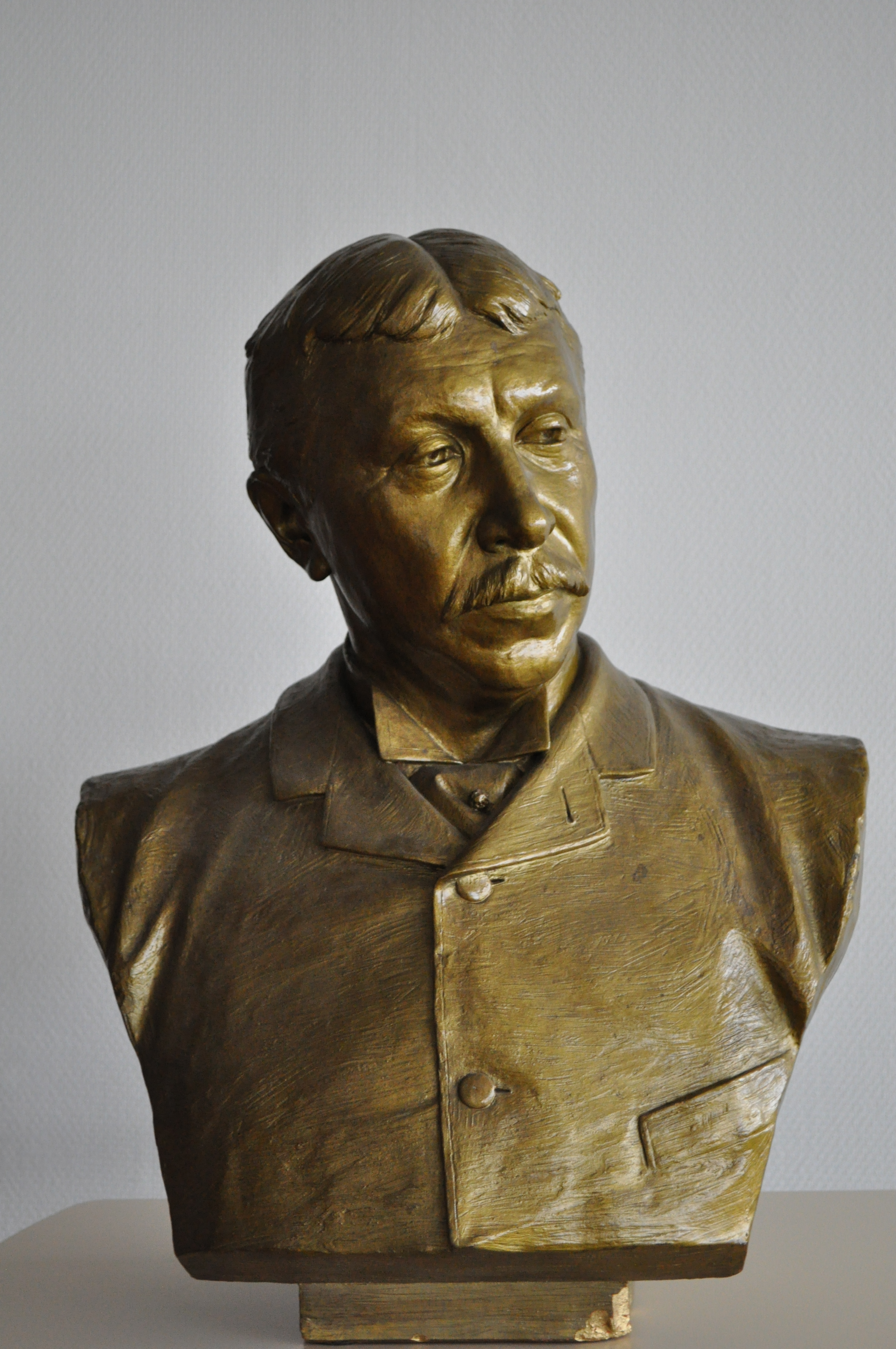 Terracotta, unknown depicted person. Creator: Desiderius Duwaerts in 1891